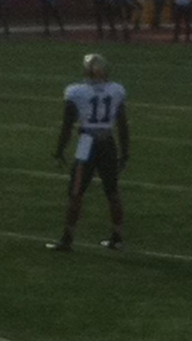 Akeem Hunt of Purdue University